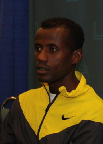 Tariku Jufar of Ethiopia, on panel at press conference for LA Marathon 2009. (cropped from File:Nuta Olaru and Tariku Jufar.jpg)